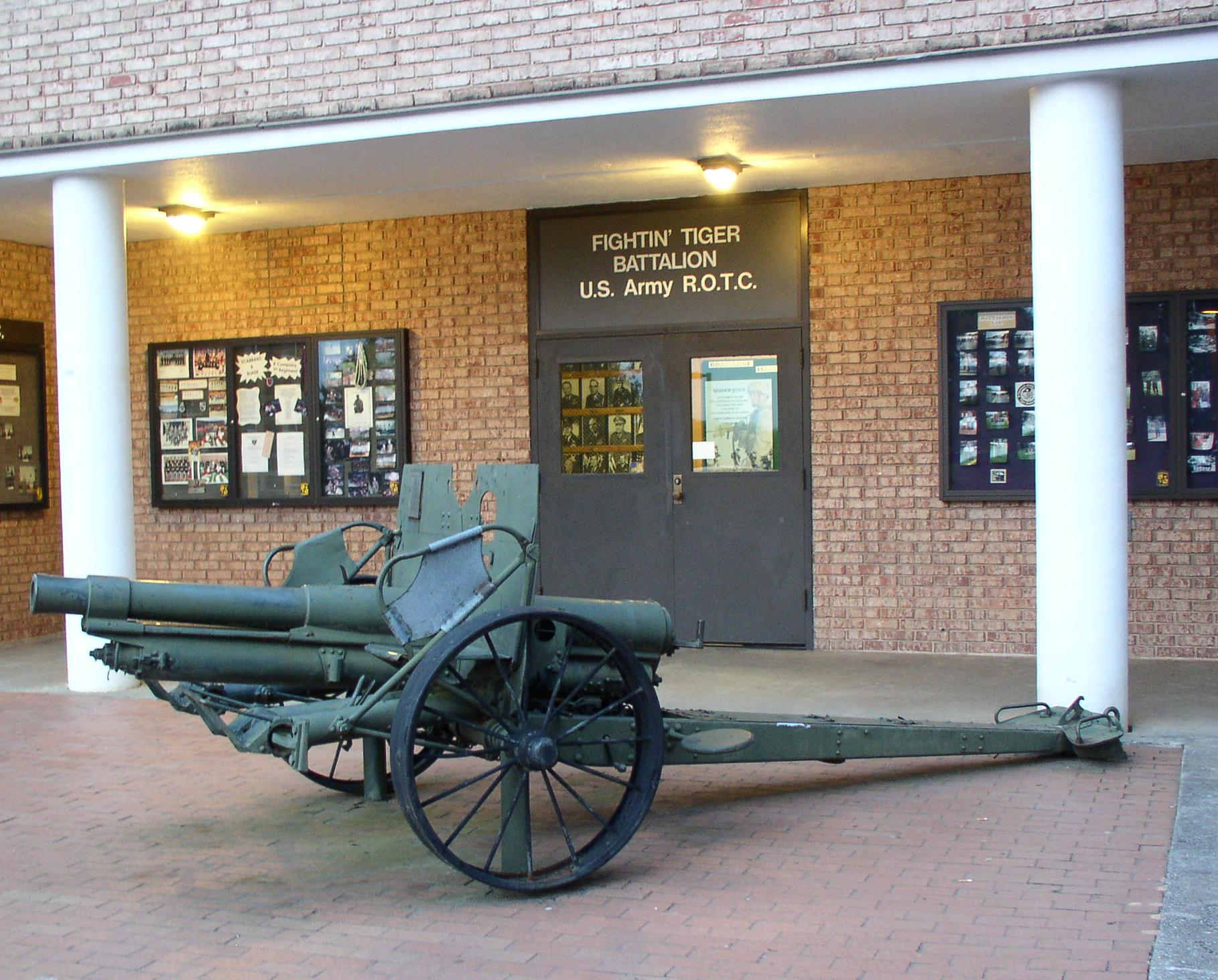 Cannon and ROTC office at Clemson University. Comment : This appears to be a 3 inch Gun Model 1902, 4 or 5 with non-standard steel wheels.